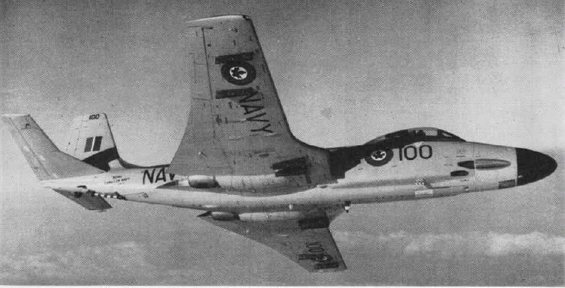 A Royal Canadian Navy McDonnell F2H-3 Banshee in flight, in 1957.